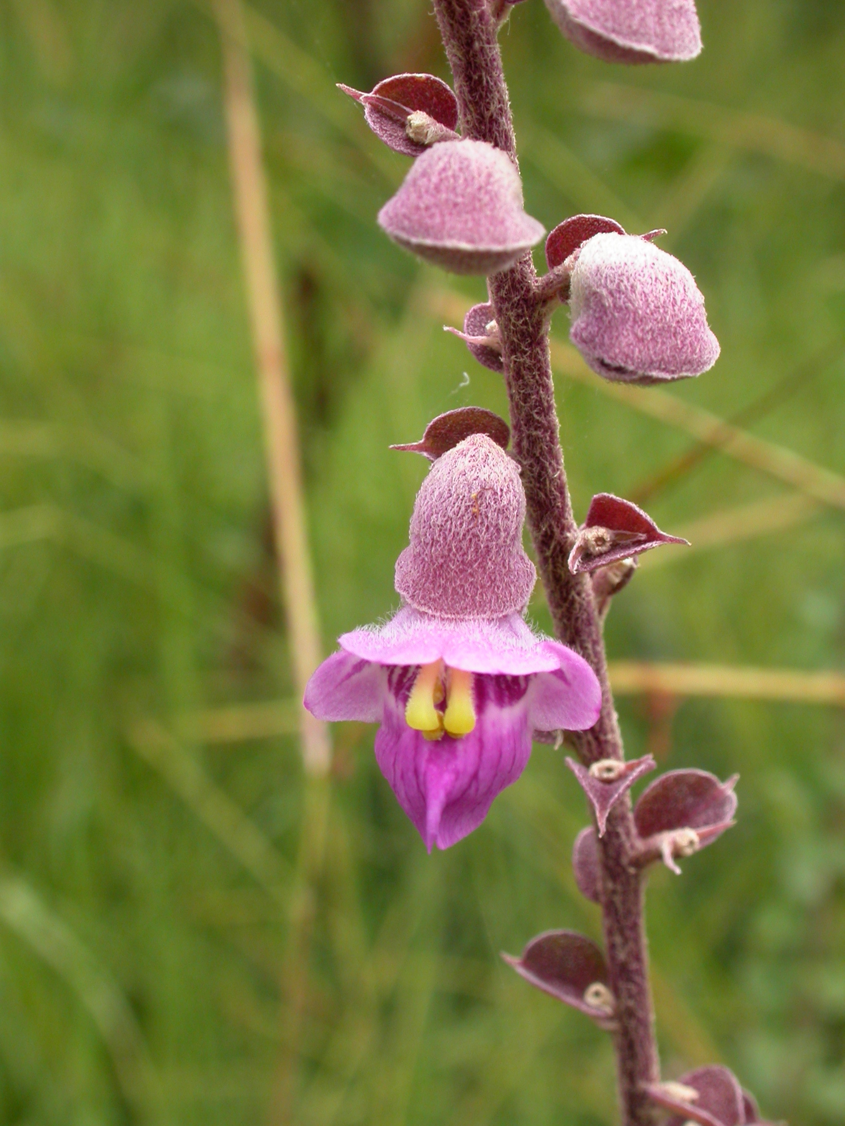 flowers of Tinnea barteri, Burkina Faso.